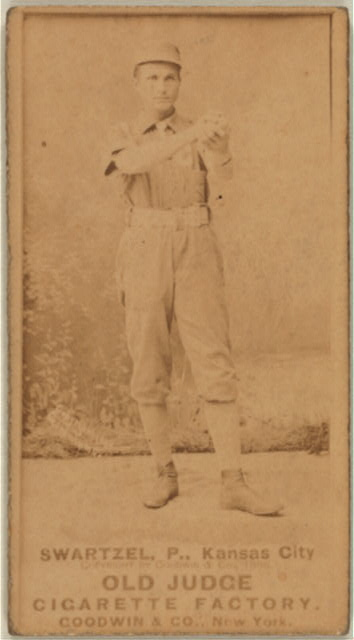 Park Swartzel